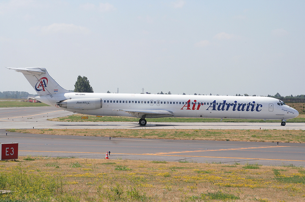 Air Adriatic MD-82 9A-CBG departs Warsaw Airport